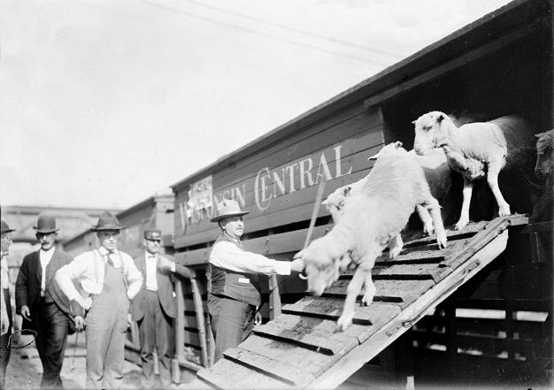 Unloading sheep from a Wisconsin Central stock car in Chicago, 1904.